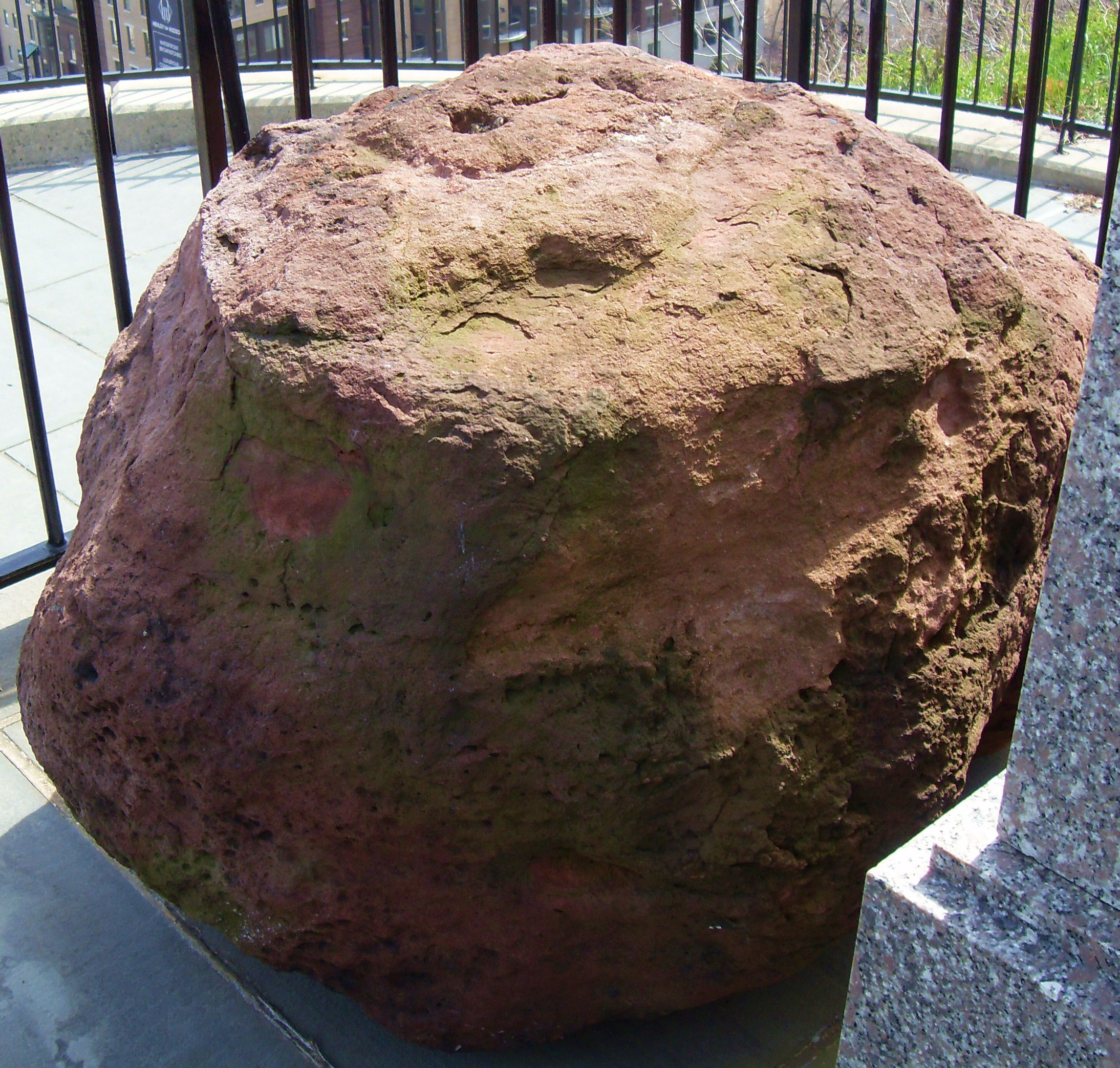 The supposed rock Hamilton used to rest on after famous duel with Burr in Weehawken NJ